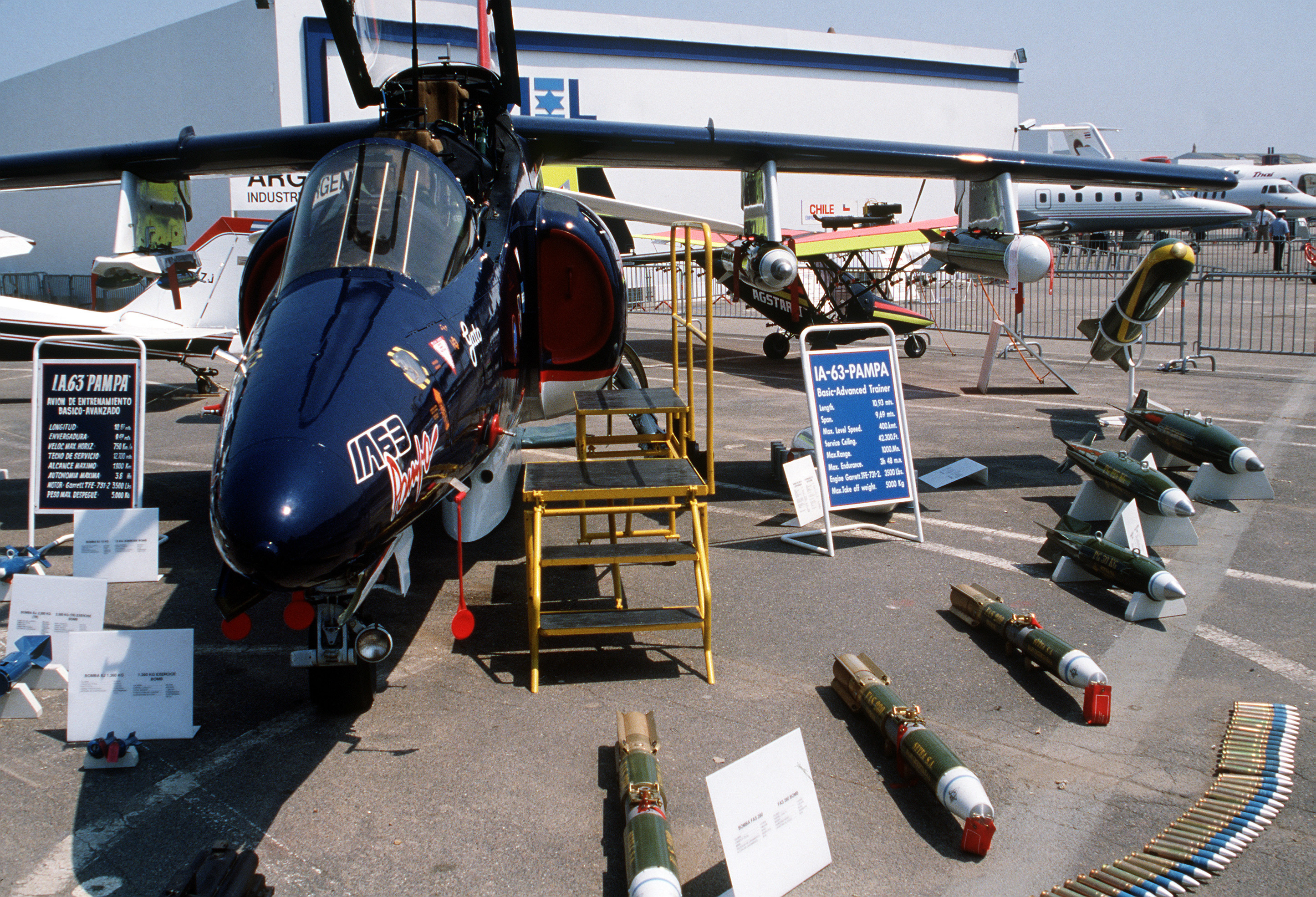 An Argentine IA-63 Pampa aircraft is displayed along with ordnance, at the 38th Paris International Air and Space Show at Le Bourget Airfield.